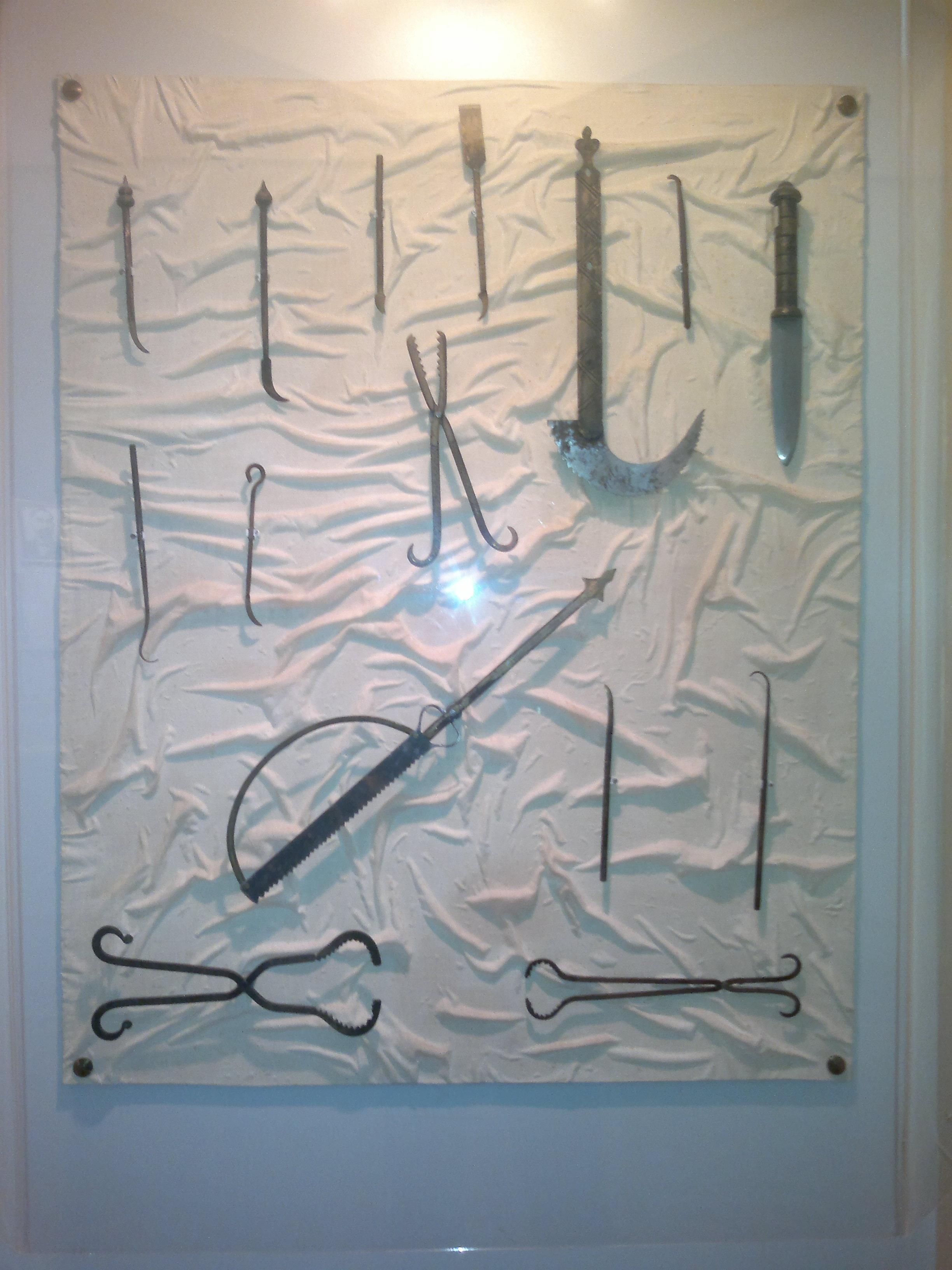 Medical instruments of mediavel times in Museum of Azerbaijan Medicine